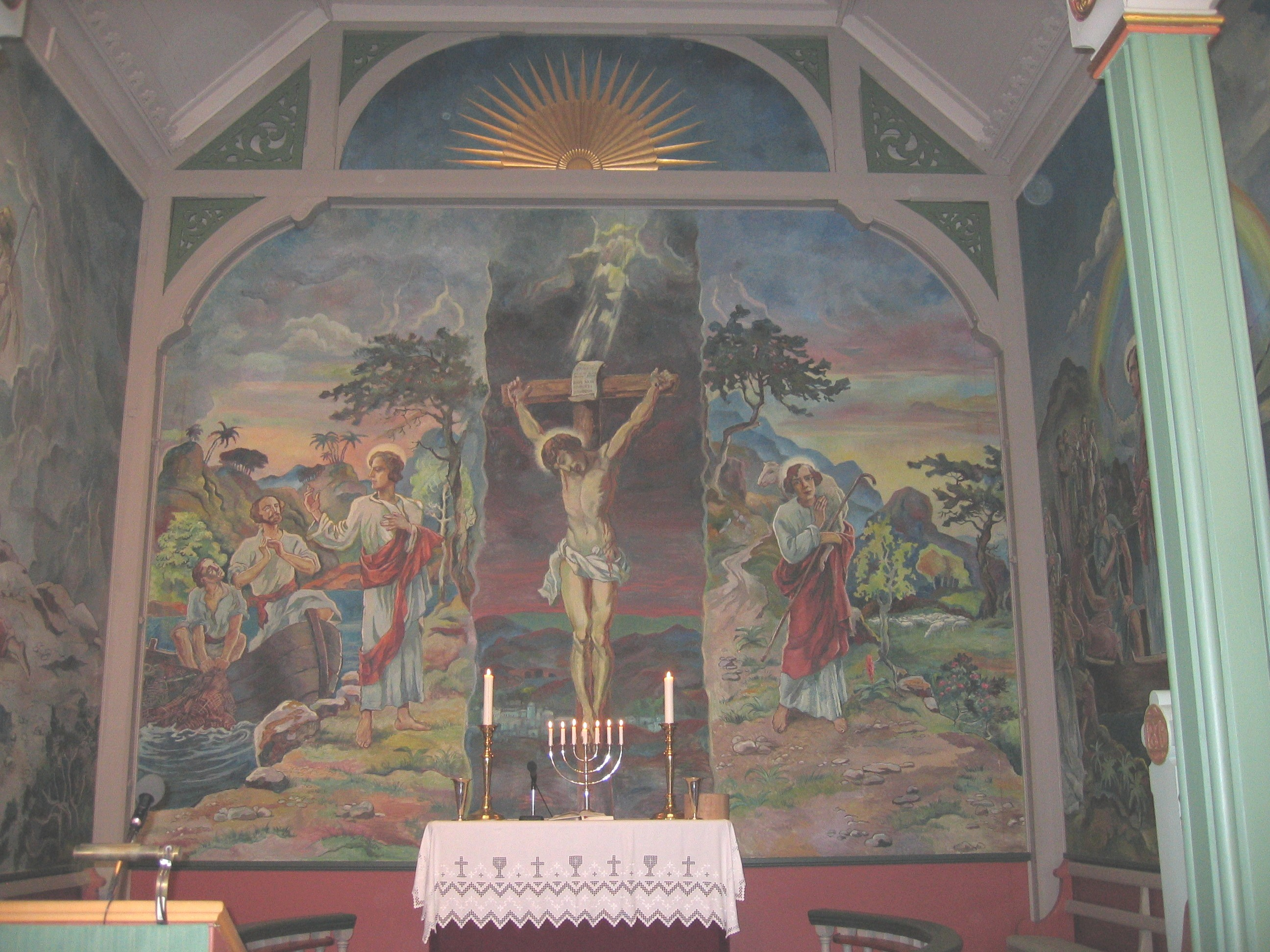 Paintings made by Jonas Peson